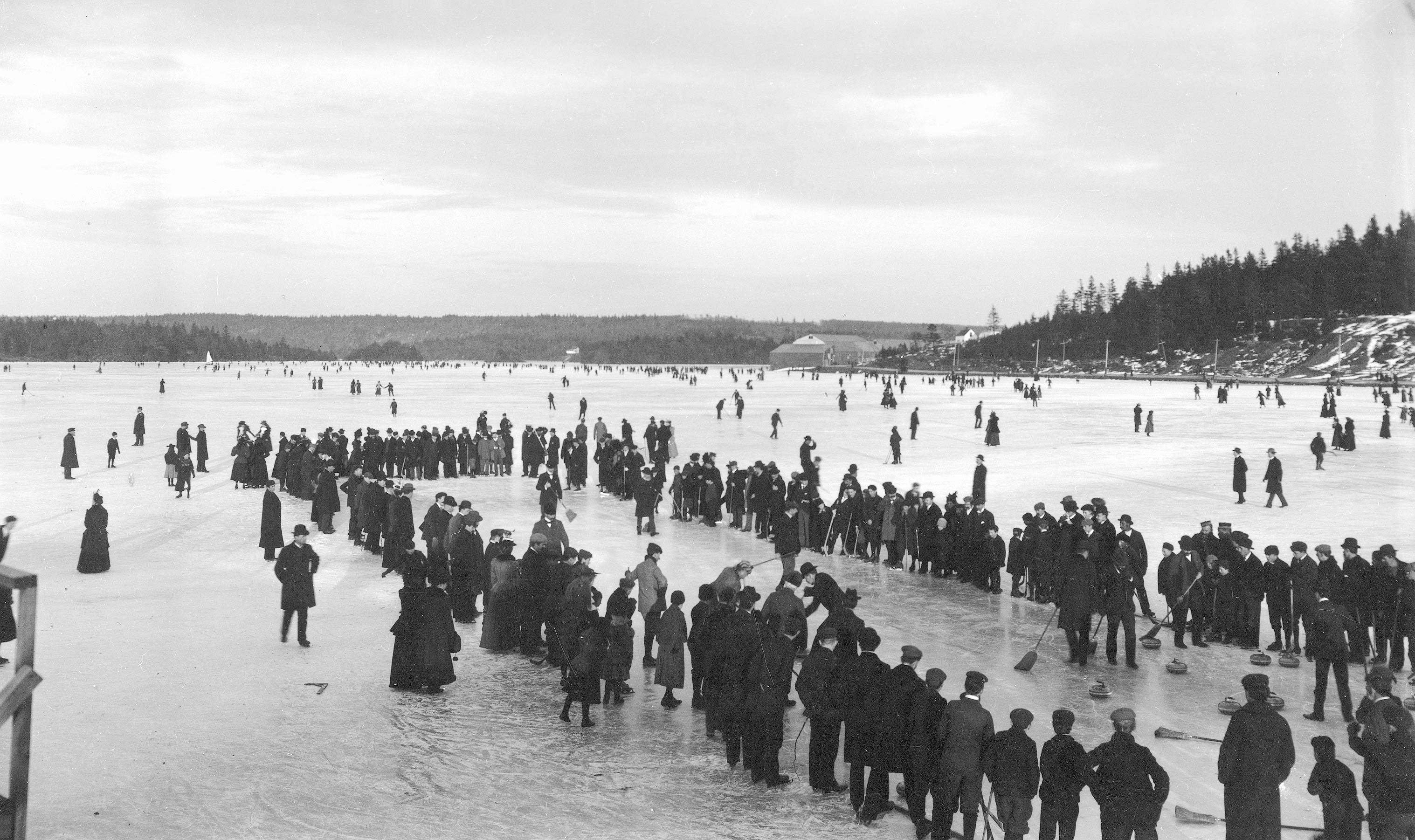 Curling on the Dartmouth Lakes, ca. 1897. Dartmouth, Nova Scotia, Canada. Reference no.: W.L. Bishop NSARM accession no. 1983-240 no. 12 / neg. no.: N-6977